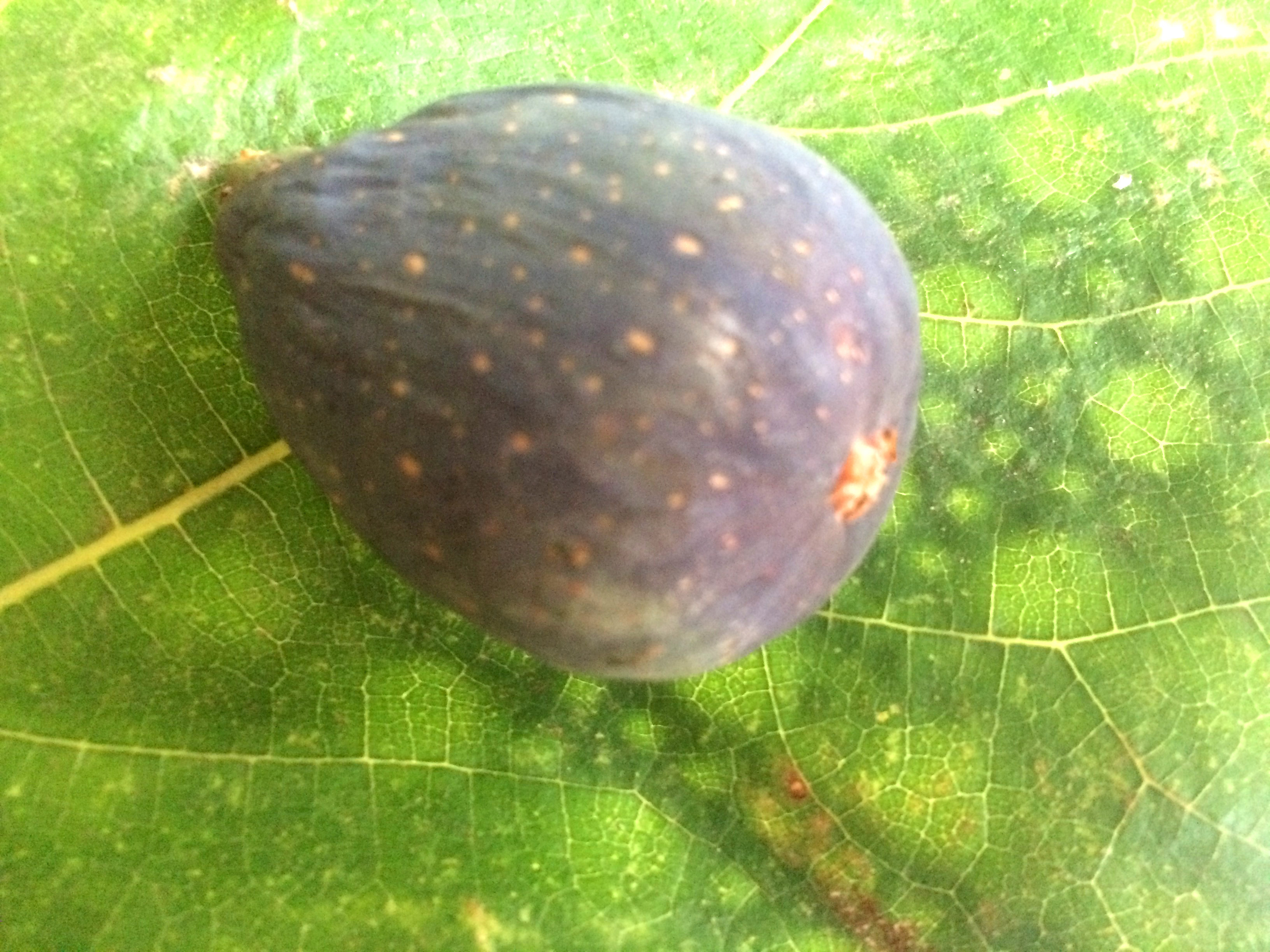 Fig 'Lloral' in Solana del Pino, Spain.